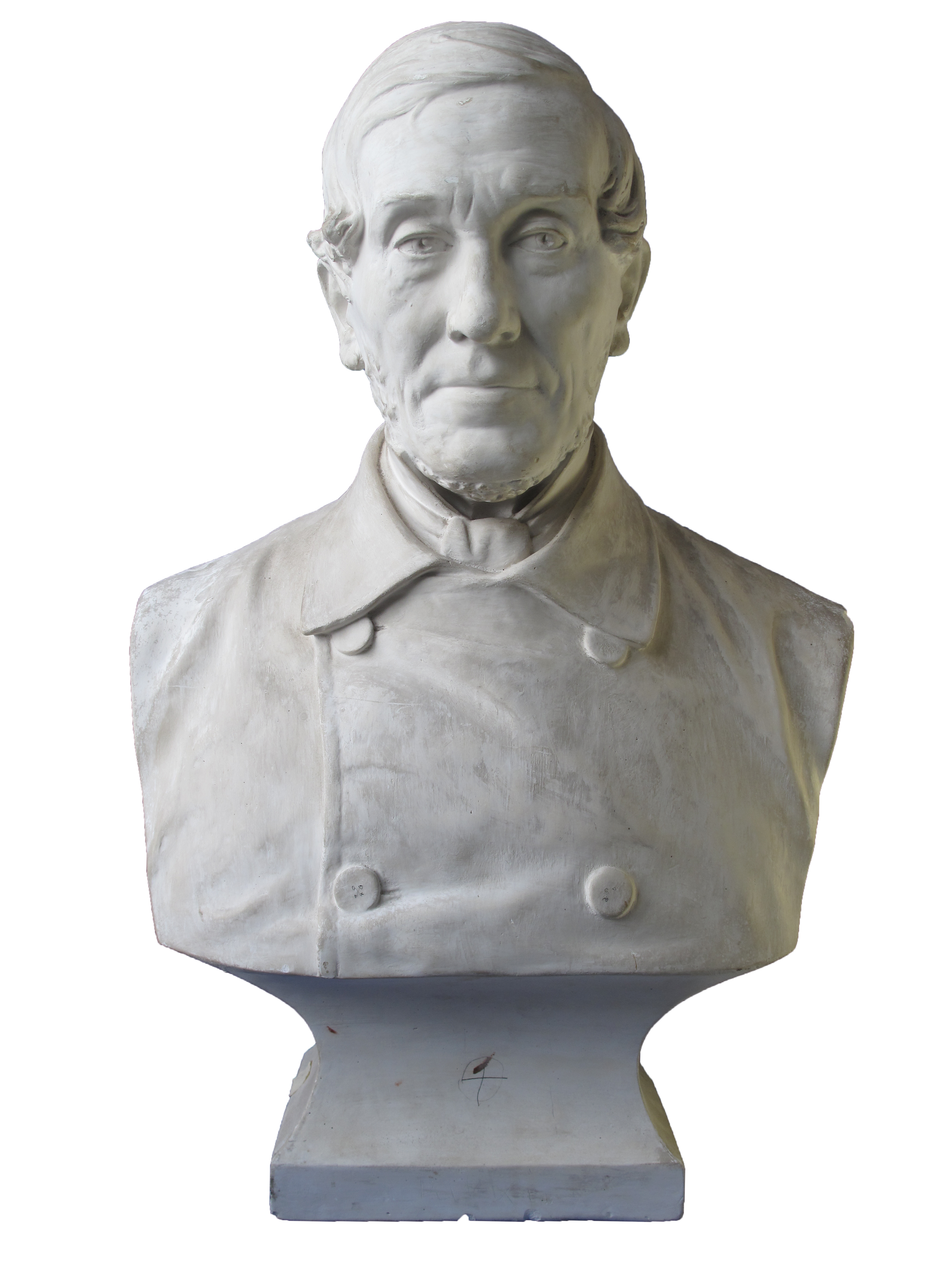 Gipsum/Plaster copy of bust sculpted by Johannes Takanen 1884/1896?? Featuring Johan Vilhelm Snellman influential Fennoman philosopher and Finnish statesman 1806-1881.